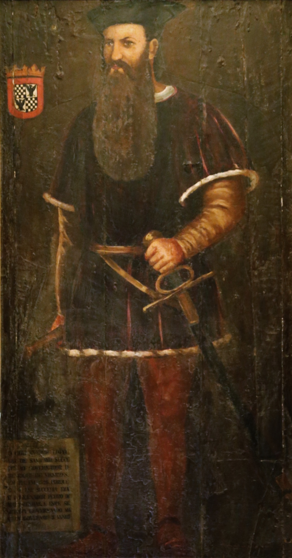 16th century painting of Lopo Vaz de Sampaio, Governor of Portuguese India from 1526 to 1529.